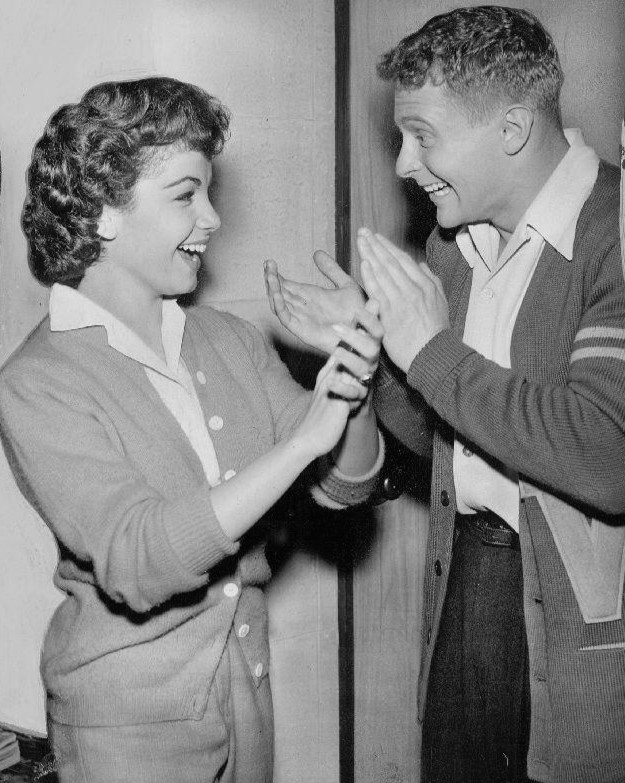 Publicity photo of Annette Funicello and Richard Tyler as guest stars on The Danny Thomas Show.